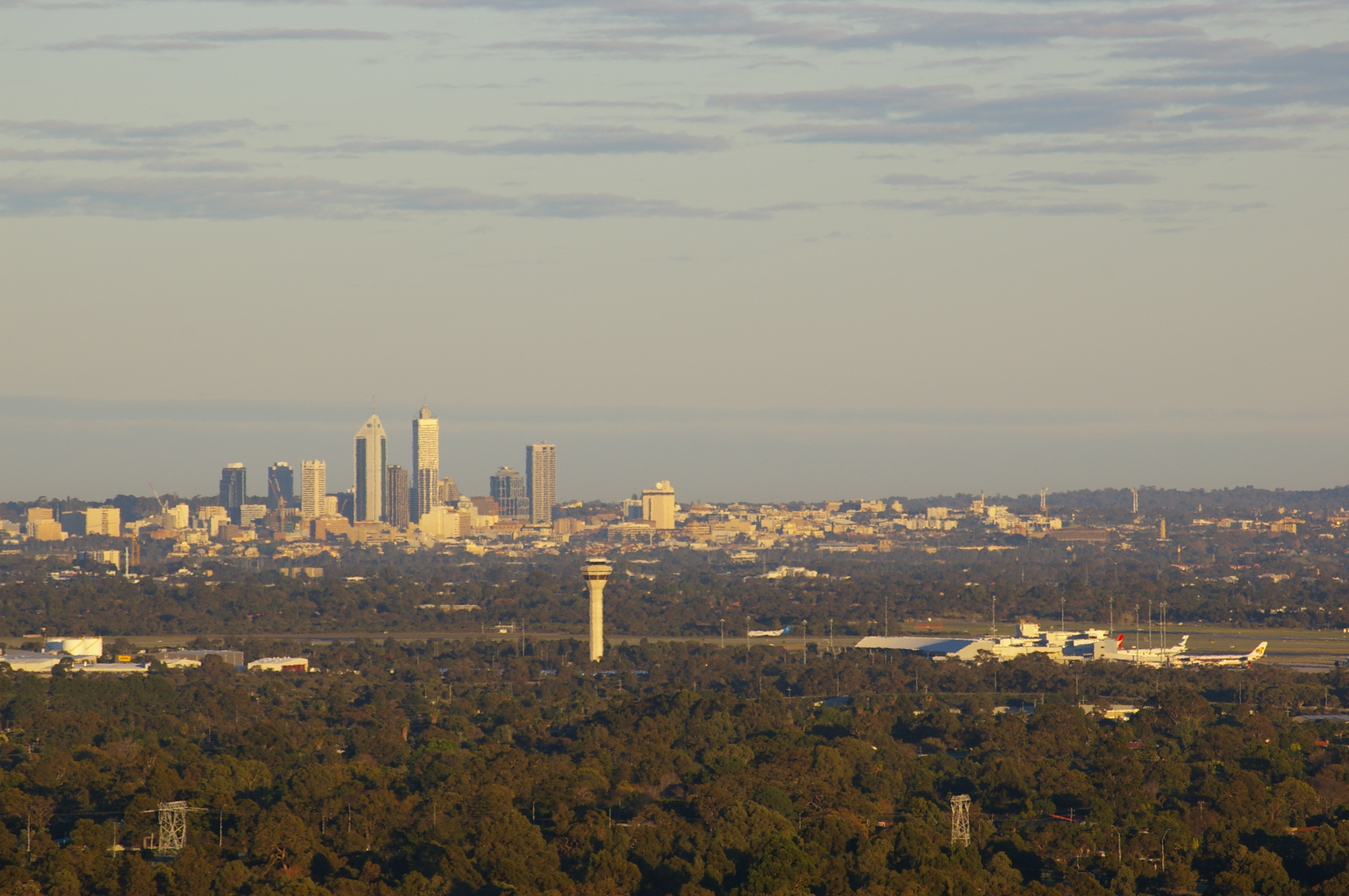 Perth Airport from the Zig Zag(looking west across the Swan Coastal Plain) showing its position in relation to the city centre, haze is due to the enviroment, image was taken 40 minutes after sunrise